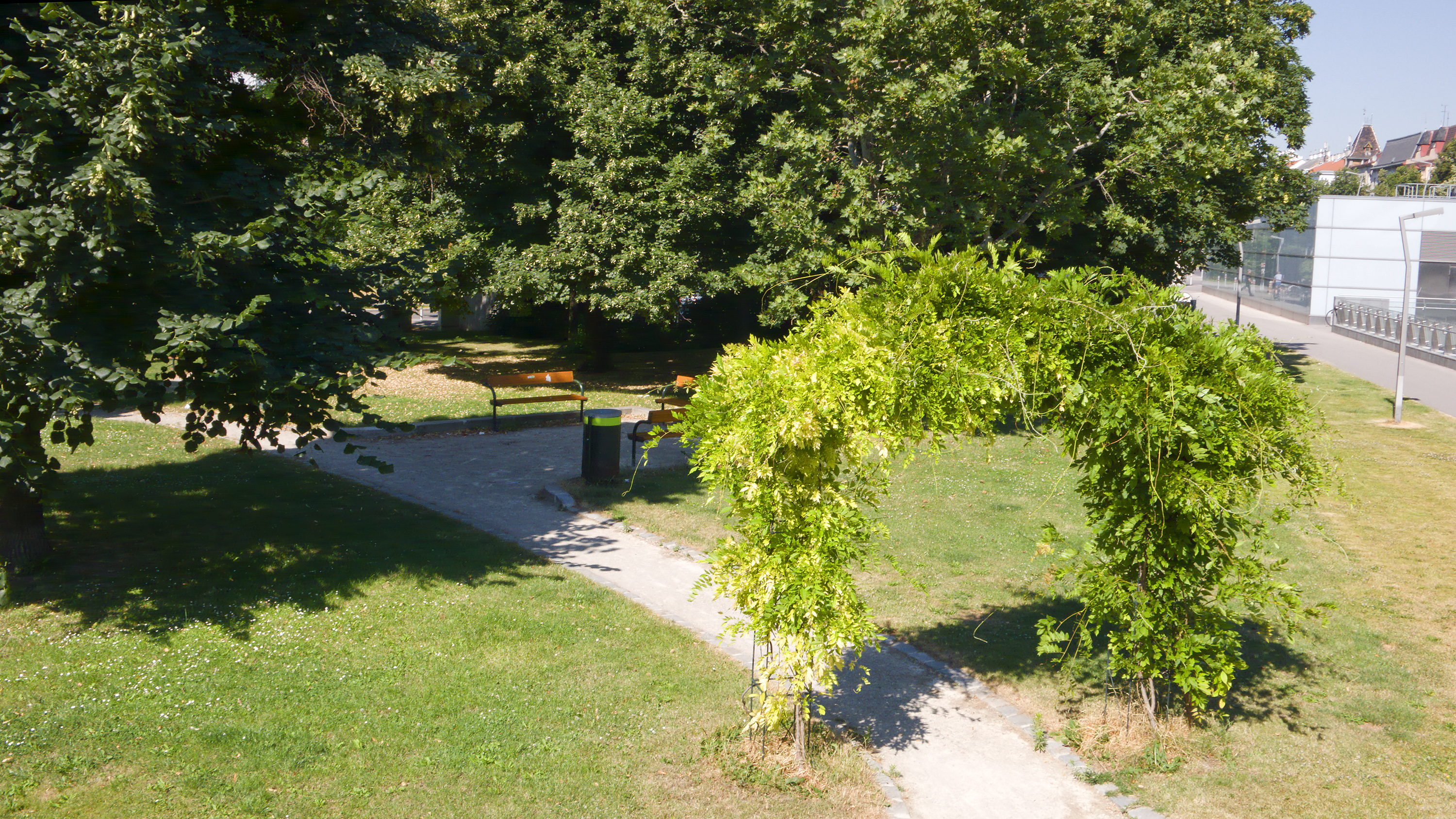 Wolfgang-Kössner-Park in Vienna Leopoldstadt